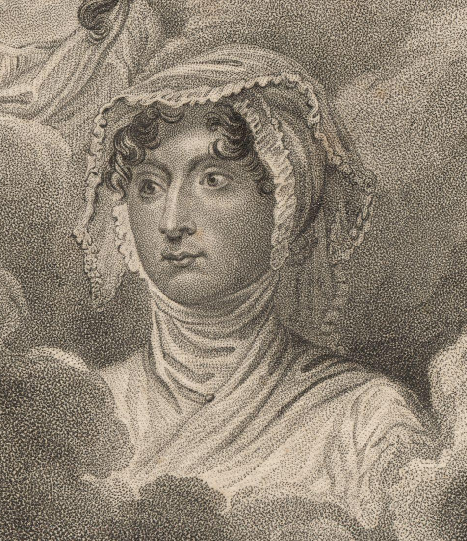 Extracted from Apotheosis of the Princes Octavius & Alfred, and of the Princess Amelia (Prince Octavius; Princess Amelia; Prince Alfred), by William Marshall Craig. According to the caption on the original image, it was derived from a "a fine Miniature in the possession of Her Royal Highness the Duchess of Gloucester."